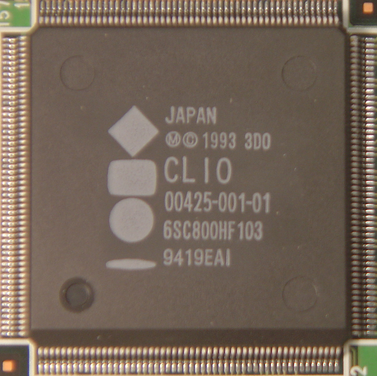 Clio Graphics Accelerator inside a Panasonic REAL 3DO Interactive Multiplayer FZ-1